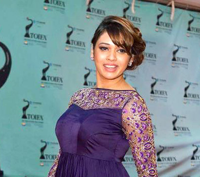 Indian singer Shalmali Kholgade at the Times of India Film Awards in 2013